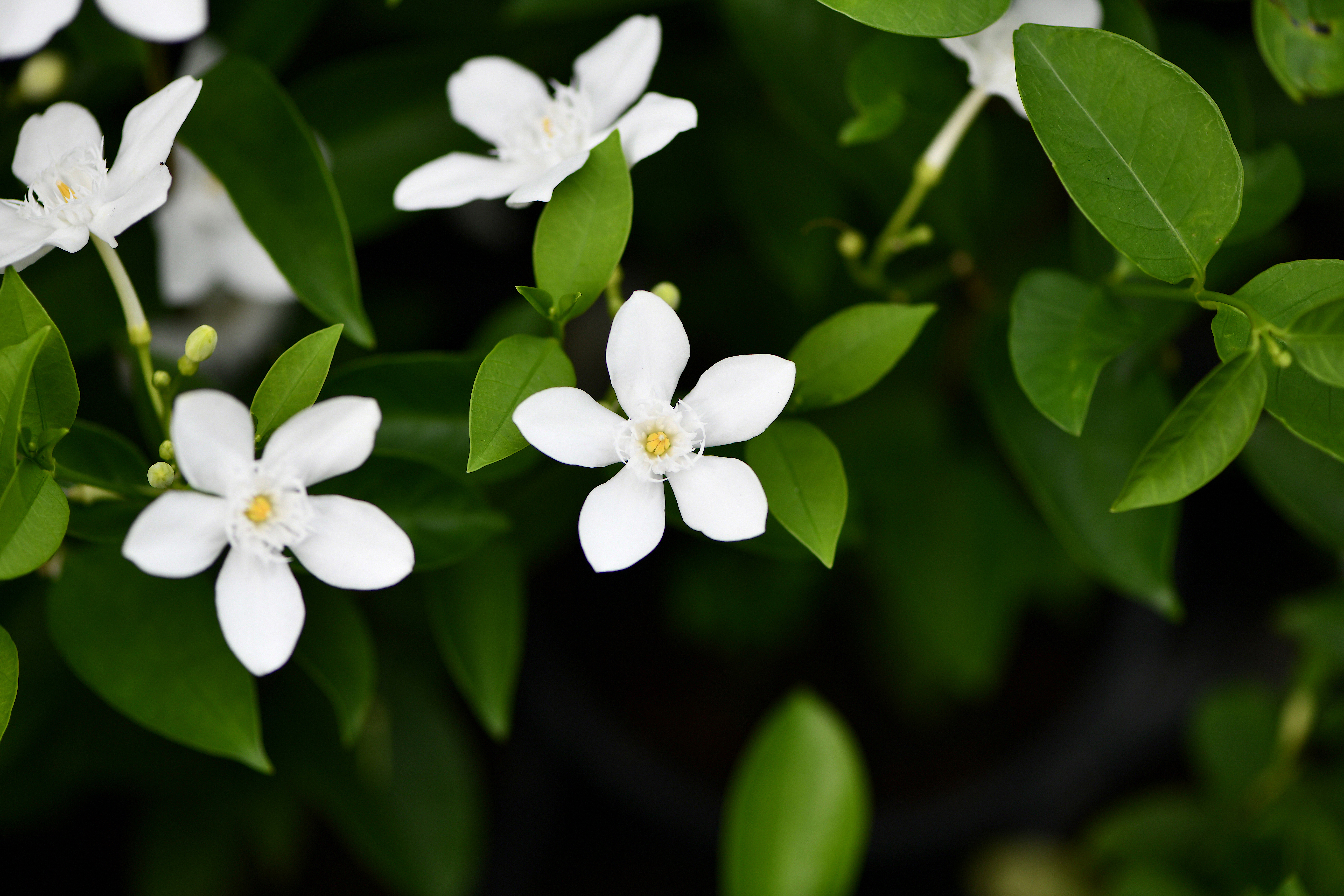 Wrightia antidysenterica in Thailand.